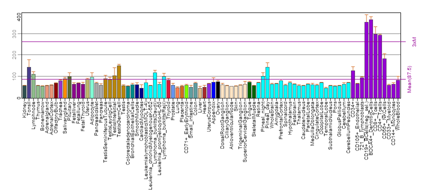 Expression profile of FAM214A in normal human tissues according to BioGPS